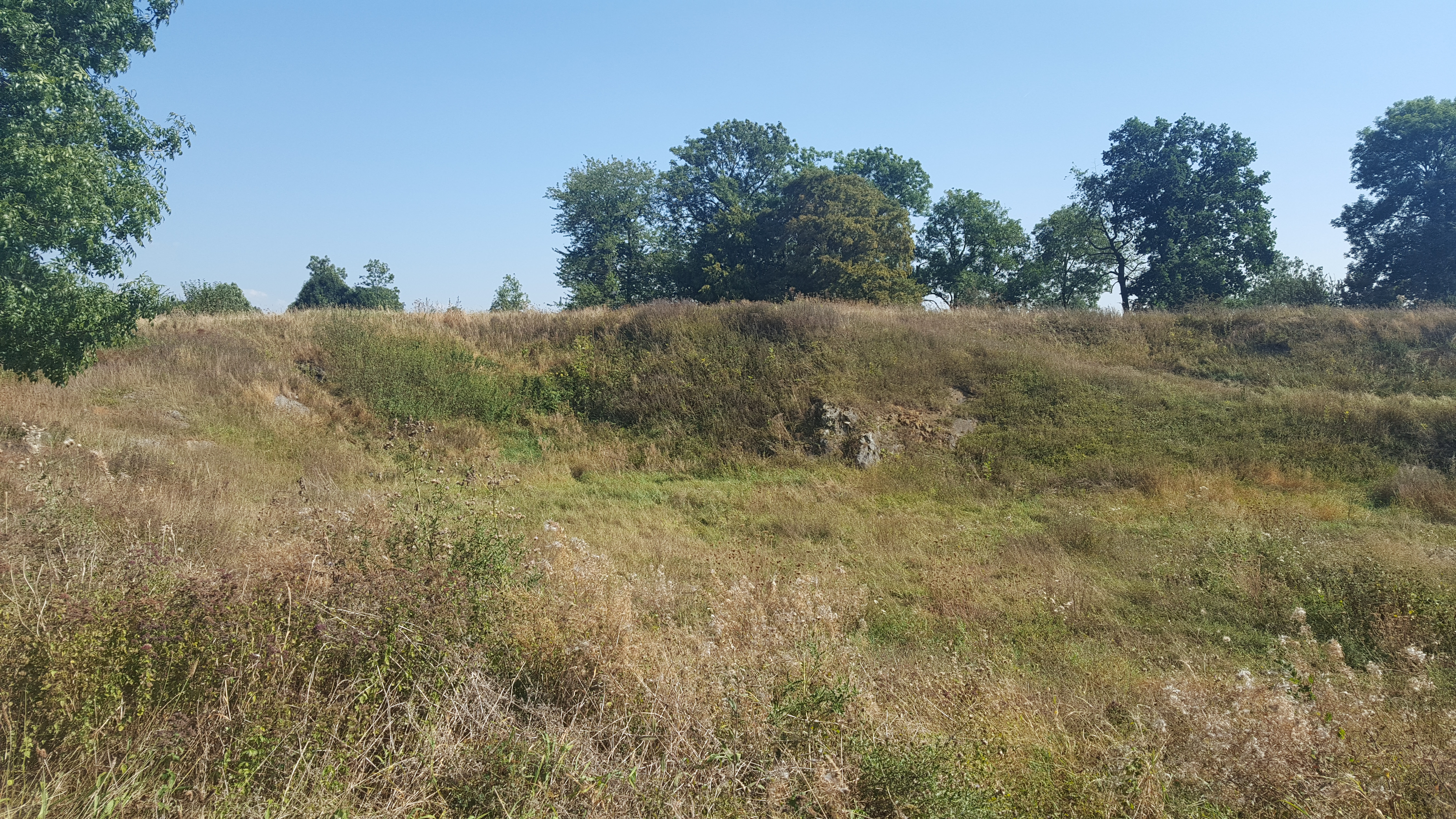 Galmeitrift (area of mine and surroundings), Lontzen, Belgium